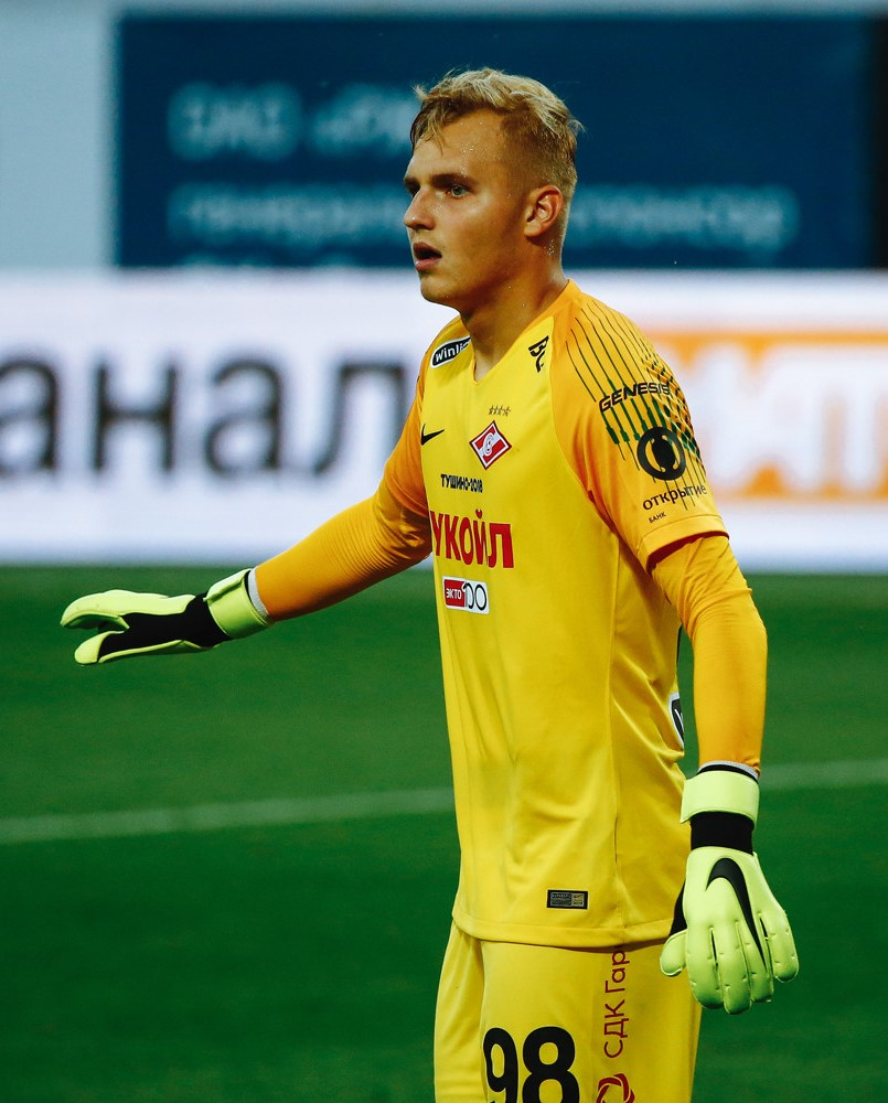 Aleksandr Maksimenko